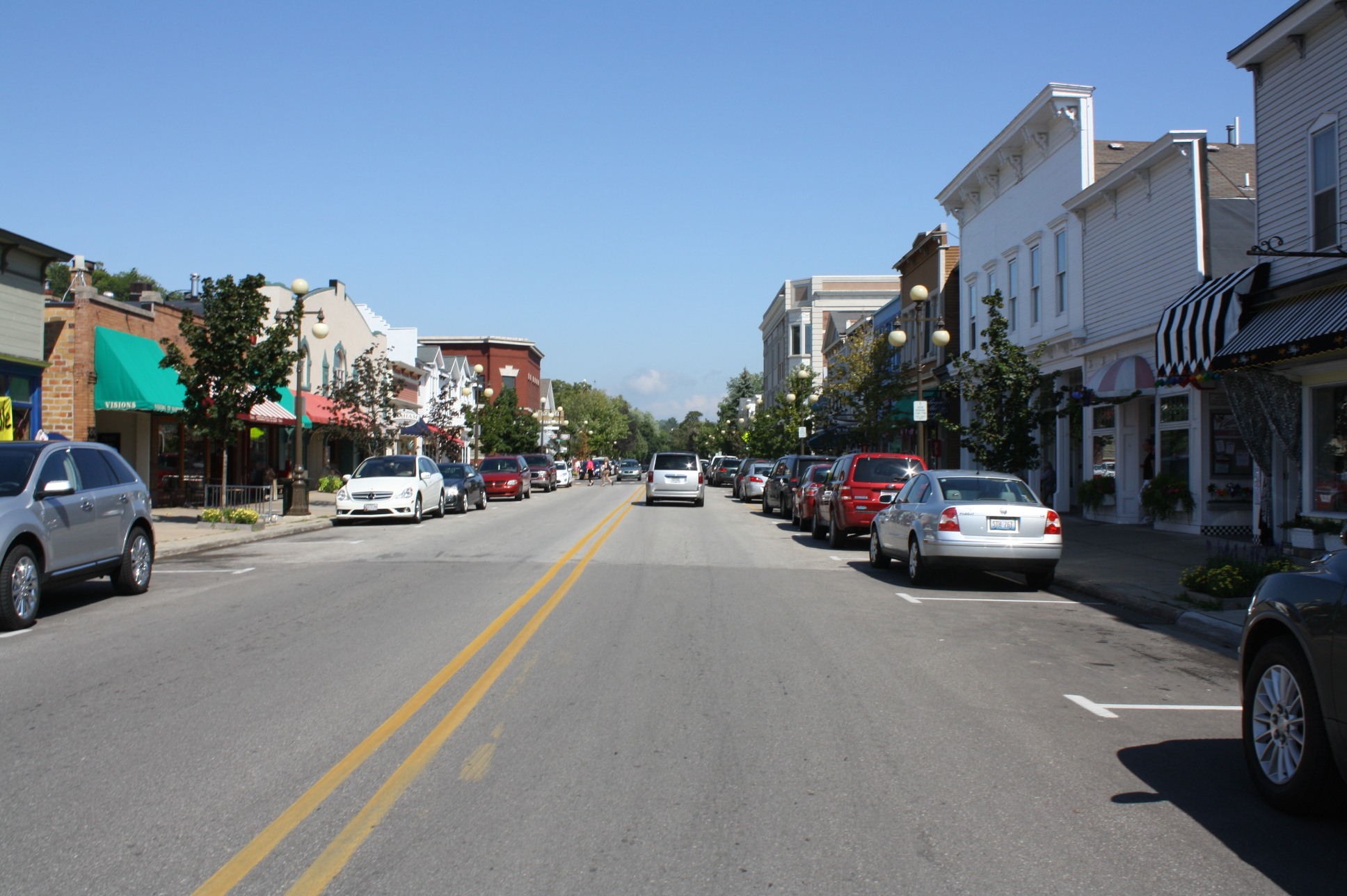 Looking at downtown Harbor Springs, Michigan along M-119 (Michigan highway).